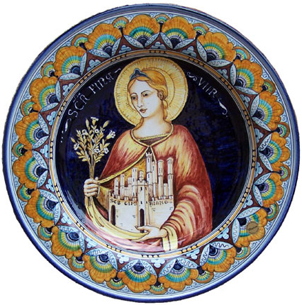 Reproduction of S. Fina